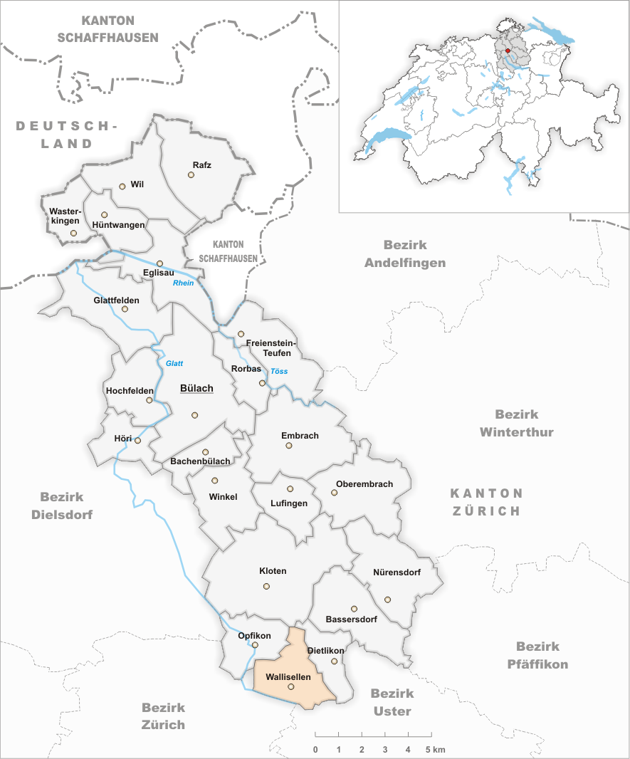 Municipality Wallisellen